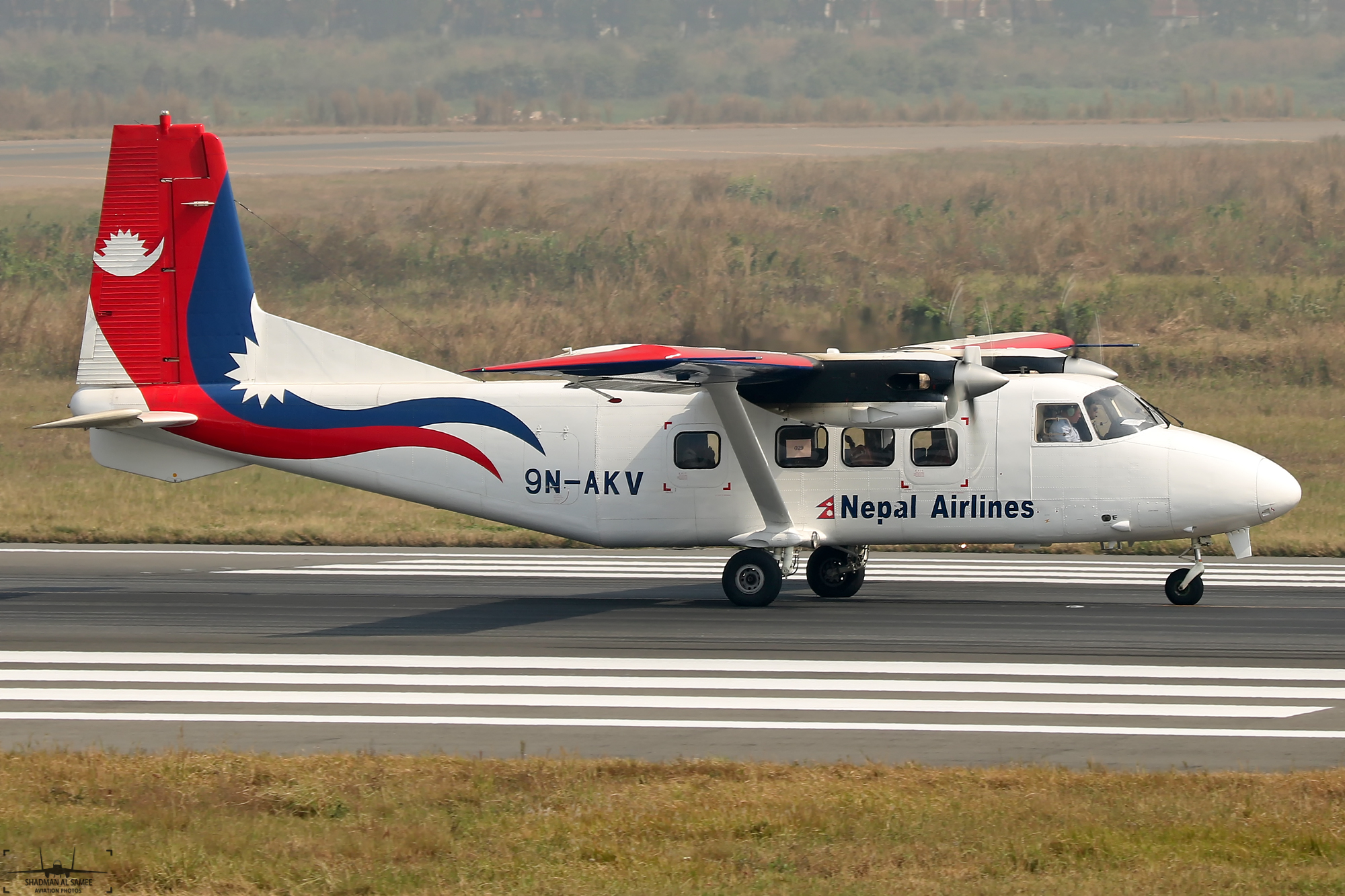 VGHS 2018: Really was a pleasant surprise to catch her, and her sistership at DAC during their delivery flight!